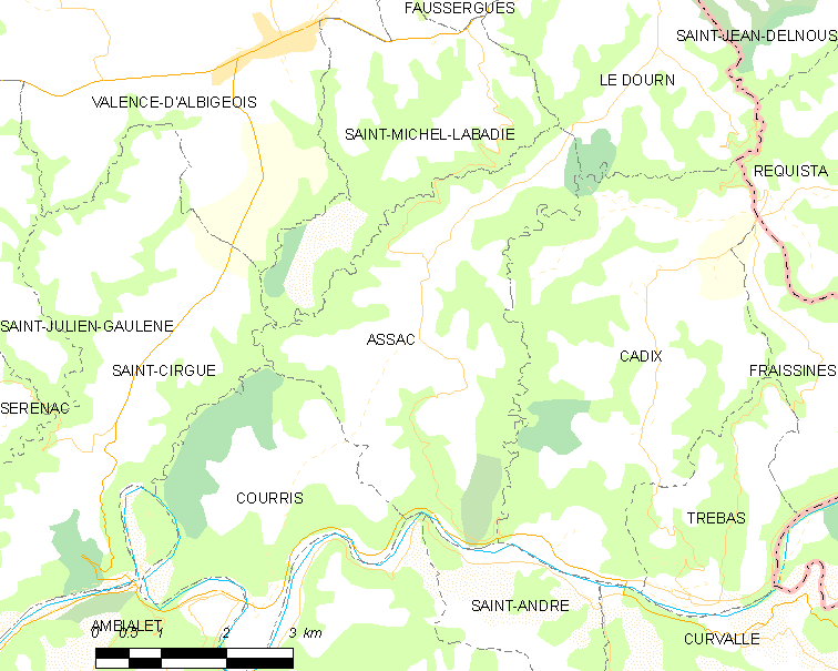 Map of French municipality Assac